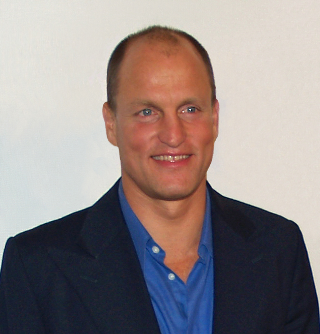 Woody Harrelson by David Shankbone